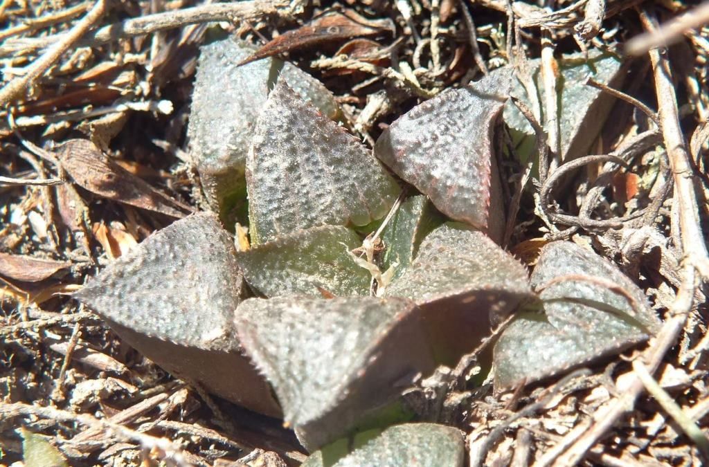 Haworthia mirabilis subsp magnifica var magnifica - MBB type population near Frehse Reserve - Riversdale